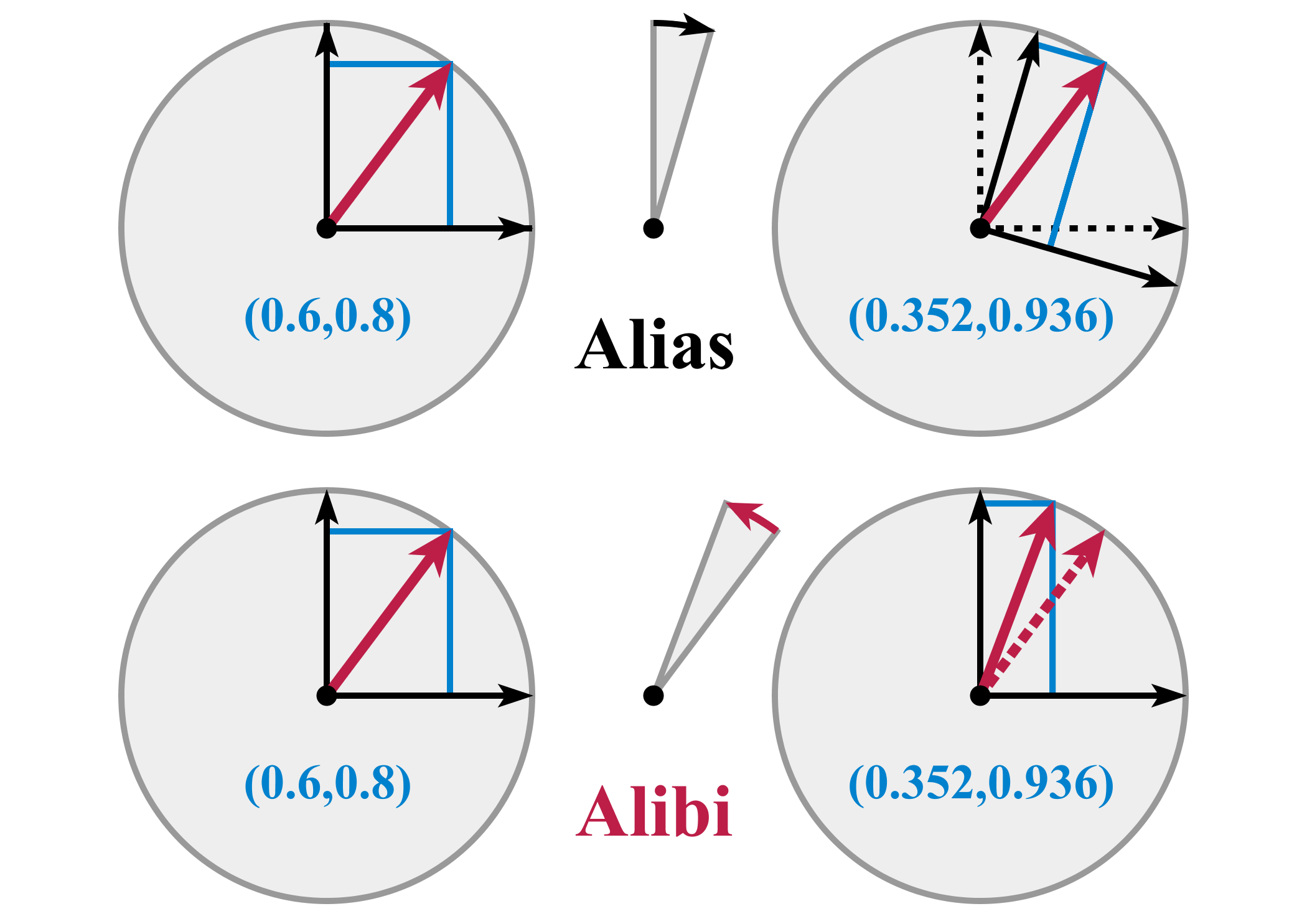 Show vector, orthonormal basis, and coordinates; rotate vector (alibi interpretation); rotate basis (alias interpretation)